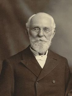 Closeup of John Rex Winder, with other people in the origional photo cropped out.